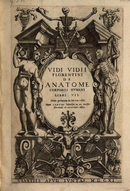 De anatome corporis humani libri VII. - Venetiis, Juntae 1611